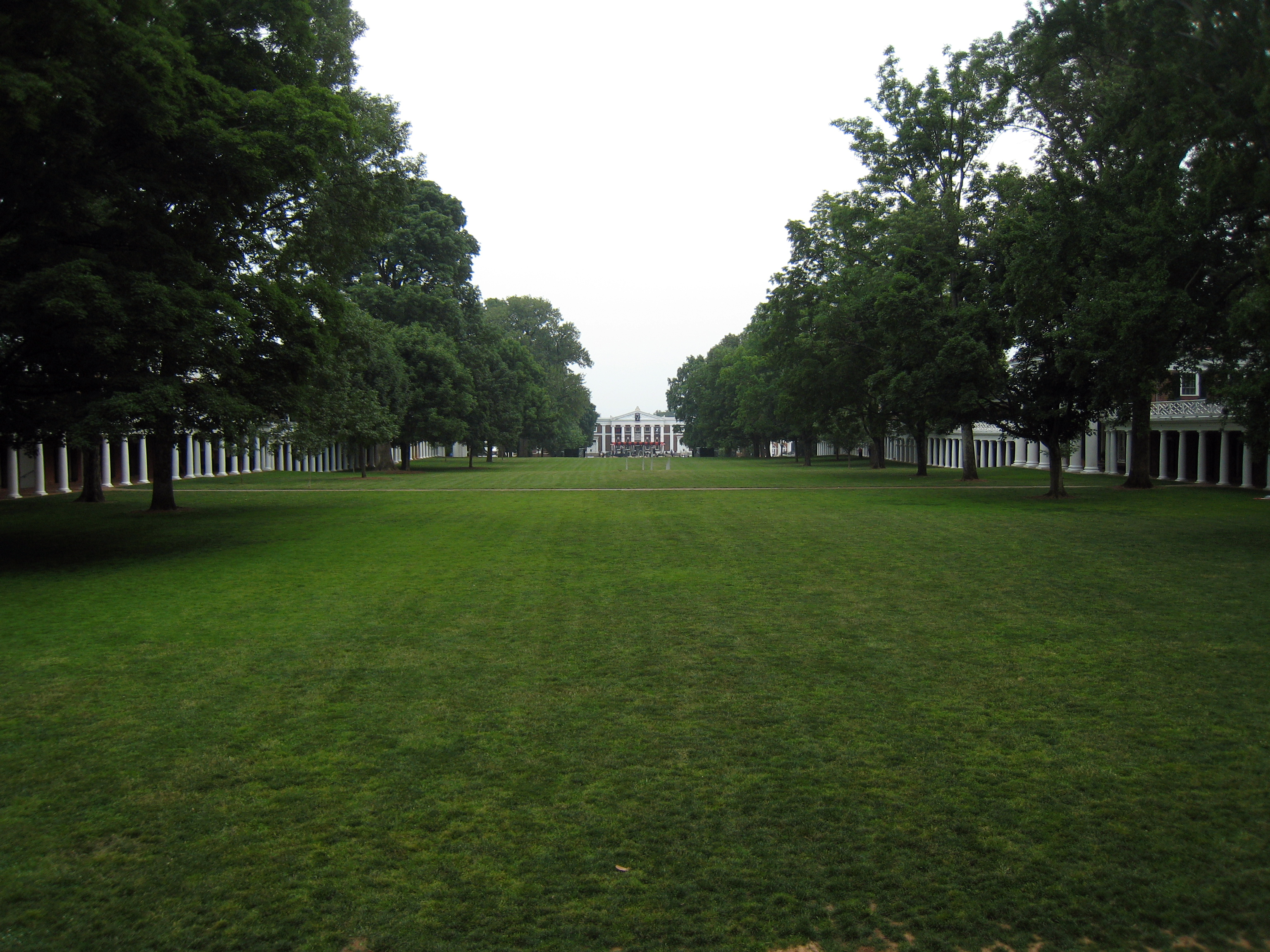 The Lawn at the University of Virginia, facing south. Old Cabell Hall, at the south end, is decorated with a "7" and a "Z" (and probably a third?) banner/poster--signs of the University's secret societies.